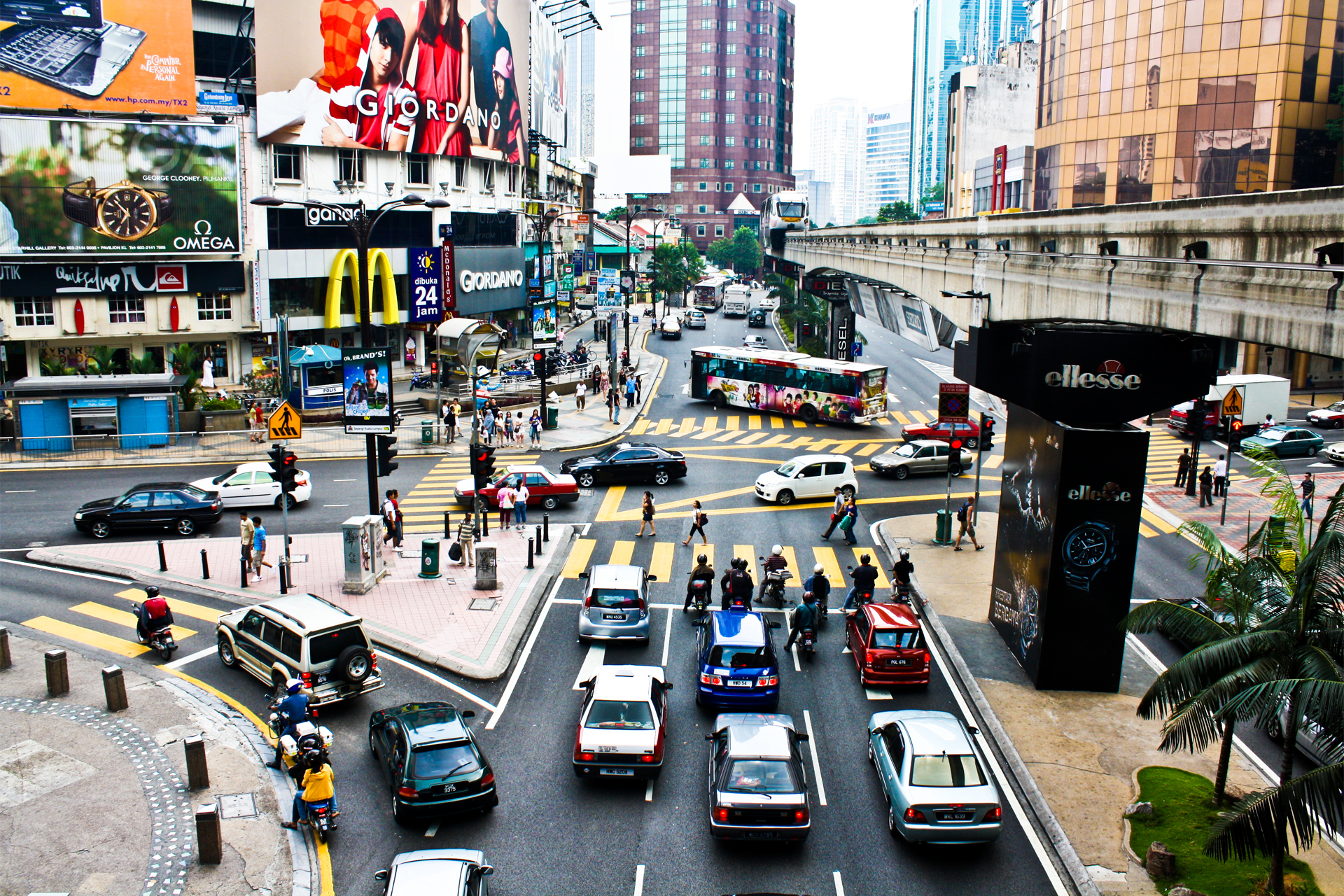 View of Bukit Bintang from KL Monorail